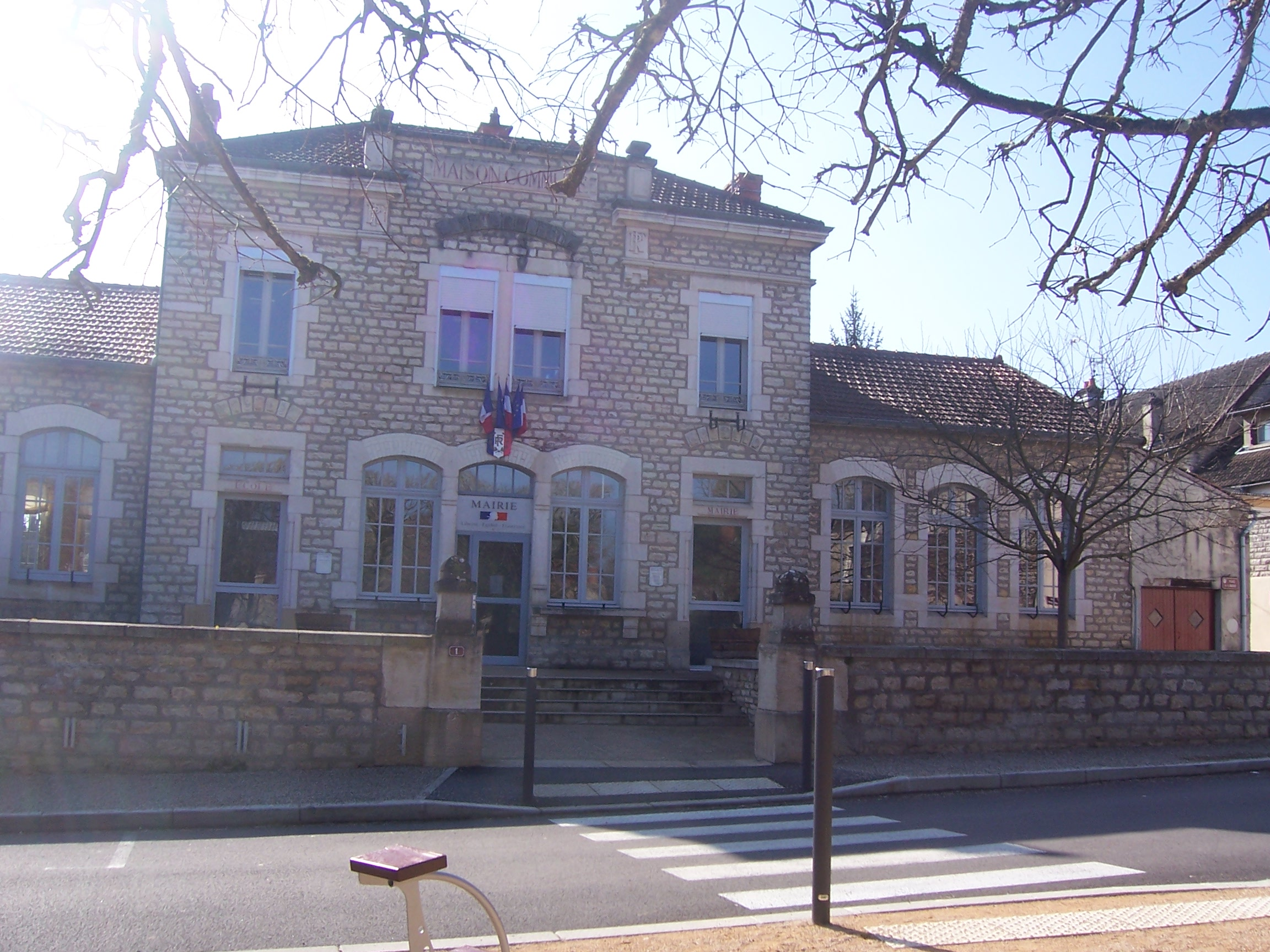 Dracy-le-Fort town hall